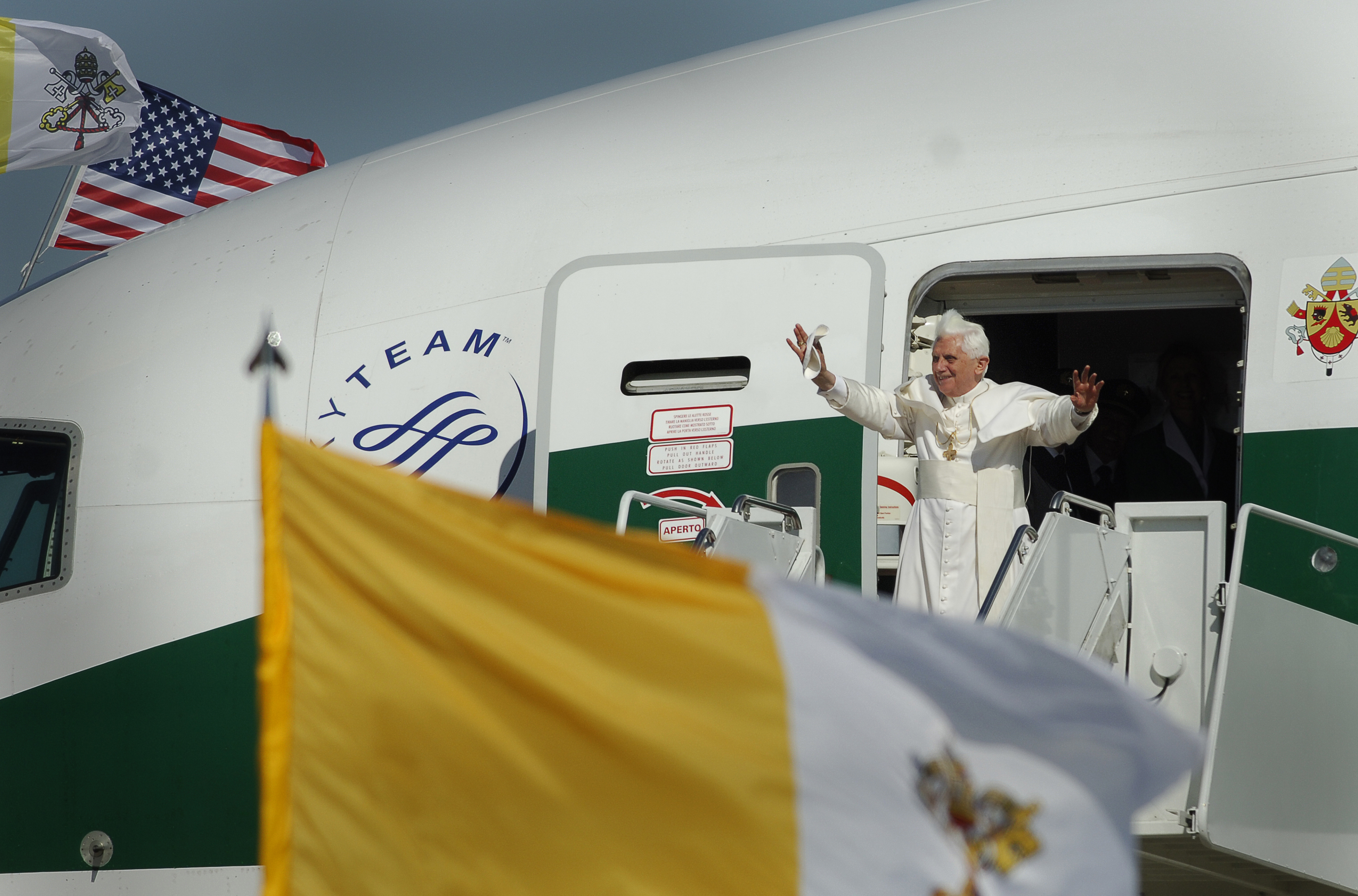 Pope Benedict XVI, hosted by the 316th Wing and the Air Force District of Washington, arrives at Andrews Air Force Base, Md., beginning his weeklong trip to the United States. The Pontiff, selected as the 265th pope on April 19, 2005, will meet with President George W. Bush at the White House, address the presidents of Roman Catholic Colleges and Universities, and hold mass at the Nationals Park in Washing to D.C. and Yankee Stadium in New York City.